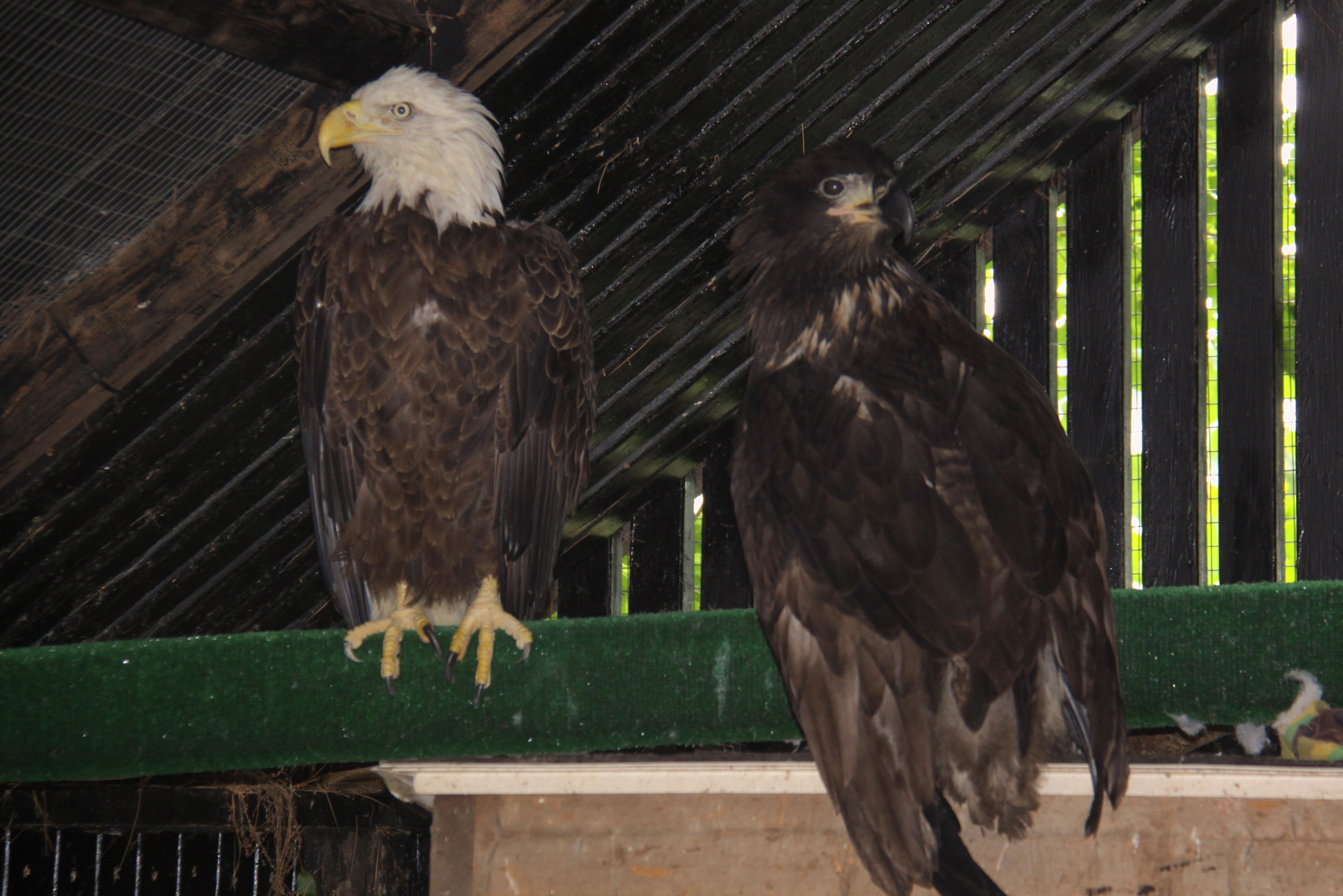 Seen here on 9-11-11 with a mature male, she was rescued at Bald Eagle Bluff on July 4, 2011. and taken to Friskys Wildlife Sanctuary. After she had two and a half months of ups and downs, on September 16. like the old hymn says "When I die, Hallelujah, by and by, I'll fly away".